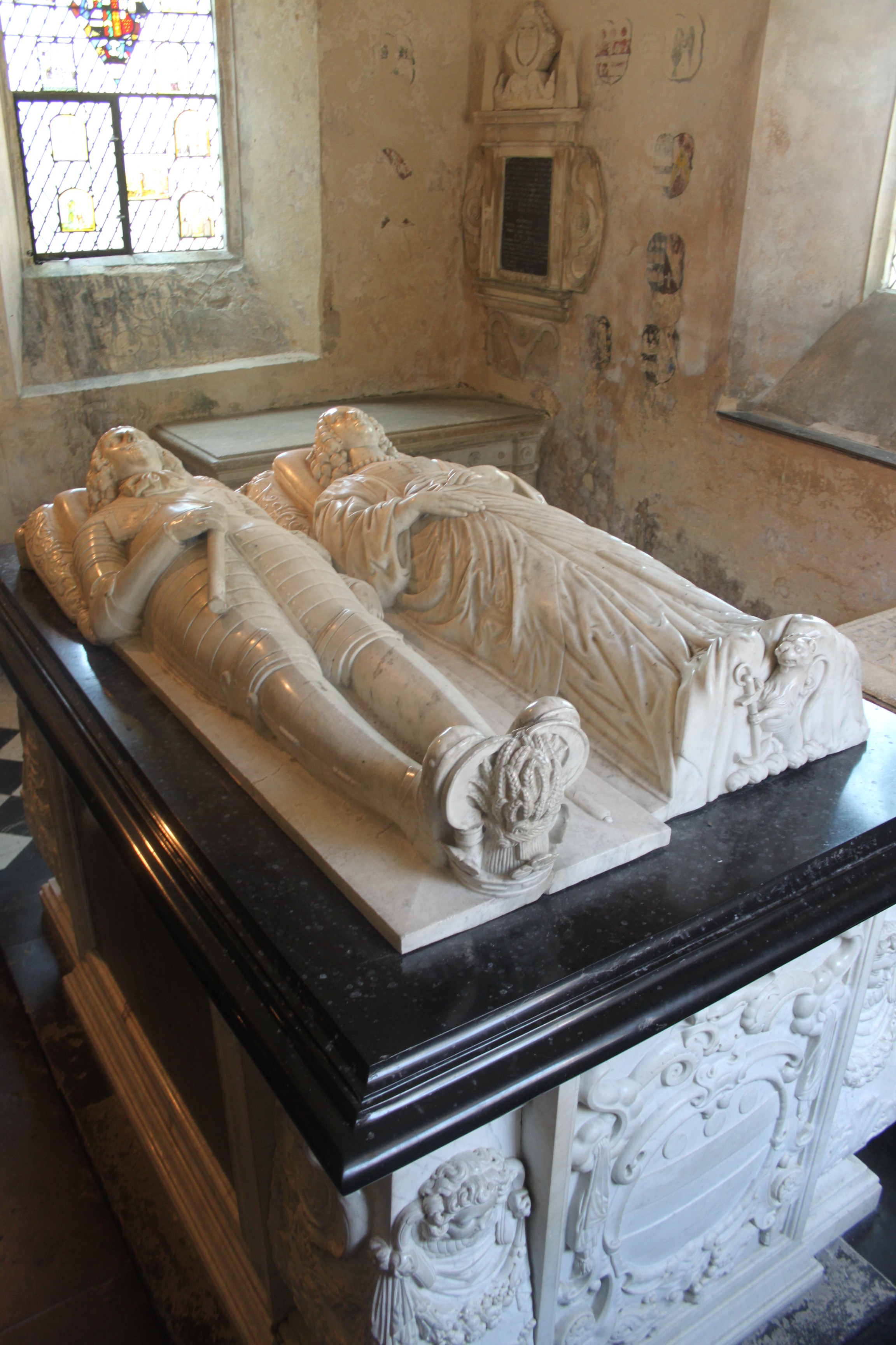 Monument to Sir Edward Hungerford (1596–1648), St Leonard's Chapel, Farleigh Hungerford Castle, Wiltshire/Somerset Wikidata has entry Q17529906 with data related to this building.